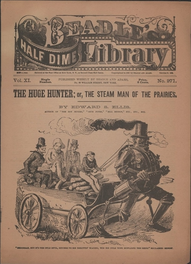 Cover of The Huge Hunter, or The Steam Man of the Prairies by Edward S. Ellis (1882 edition).